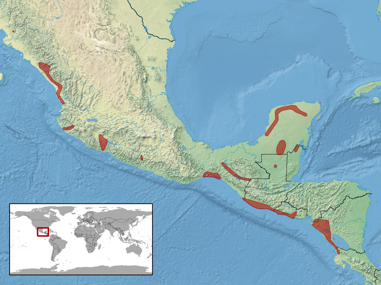 geographic distribution of Agkistrodon bilineatus (Native: Belize; Costa Rica; El Salvador; Guatemala; Honduras; Mexico; Nicaragua)